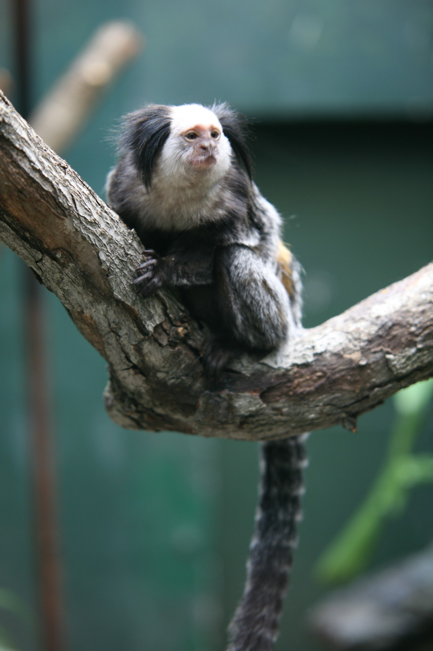 "Callithrix geoffroyi" This species is also known as the White-fronted Marmoset, and sometimes known as the White-fronted Monkey. They usually maintain social groups of around 15 to 20 marmosets. The gestation period for the Geoffroy's Tufted-eared Marmoset is around 140-145 days before giving birth to one or two young marmosets. Their lifespan is over 10 years.